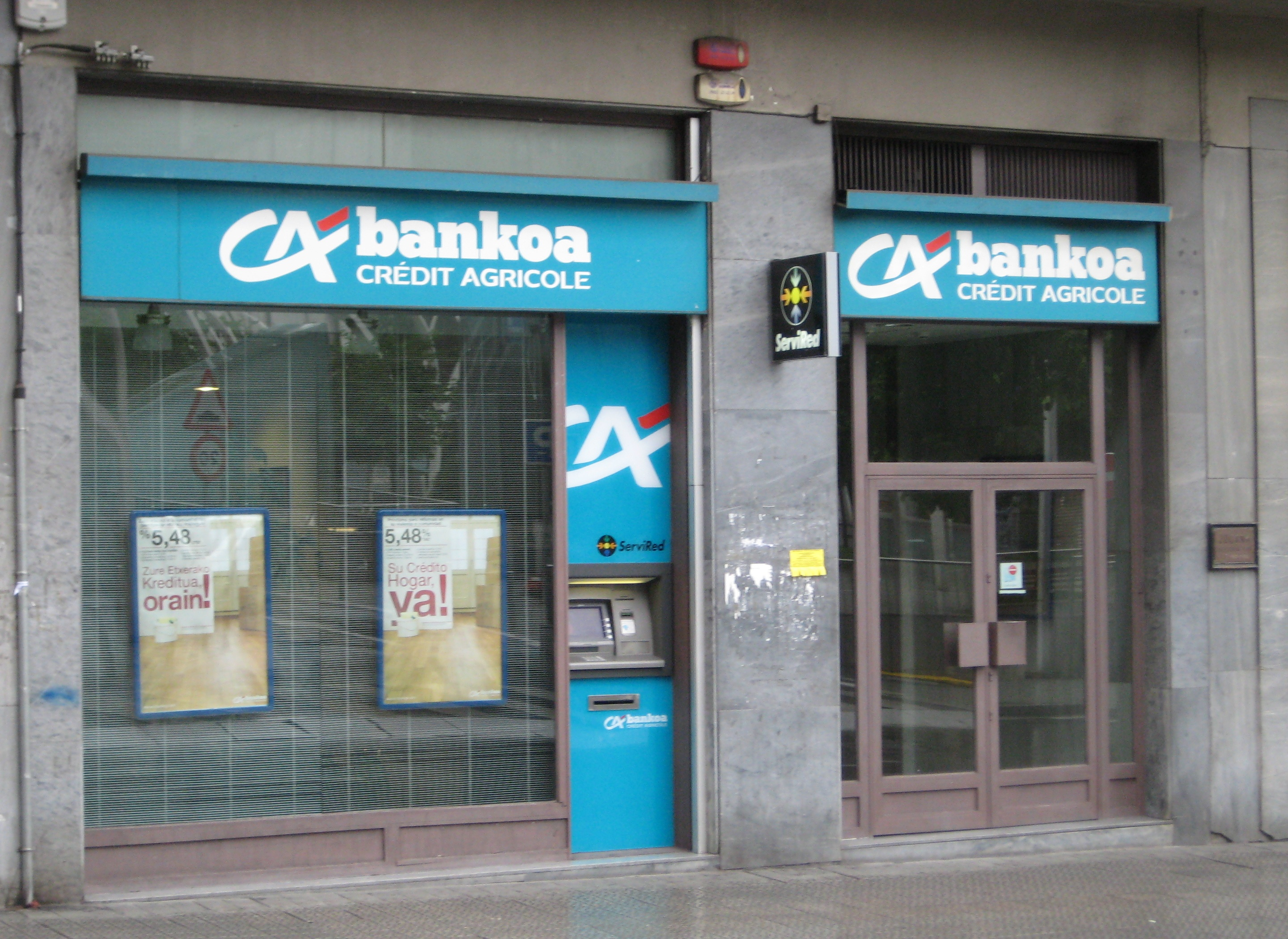 Branch of Bankoa in Indautxu, Bilbao, Biscay.